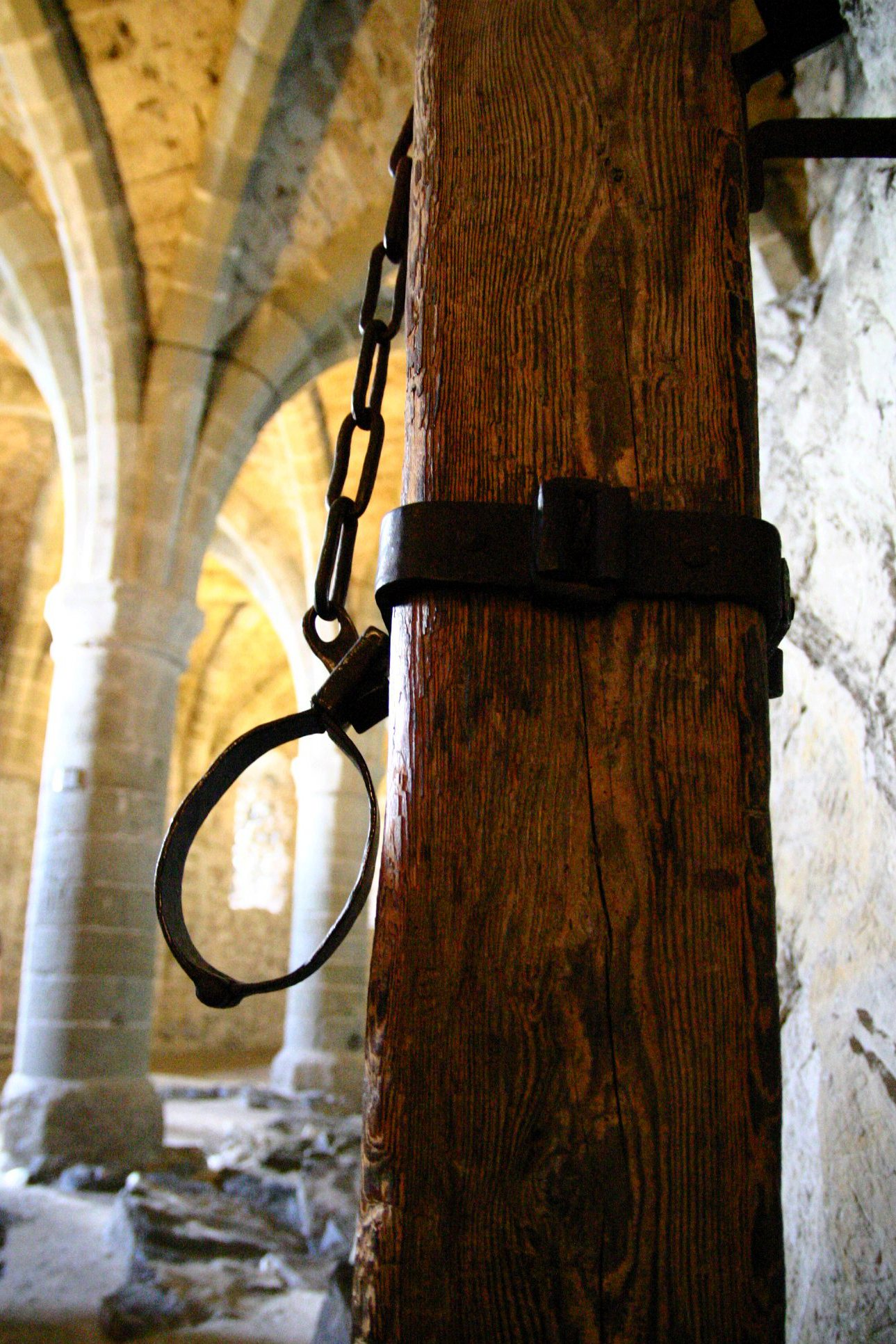 Castel of Chillon